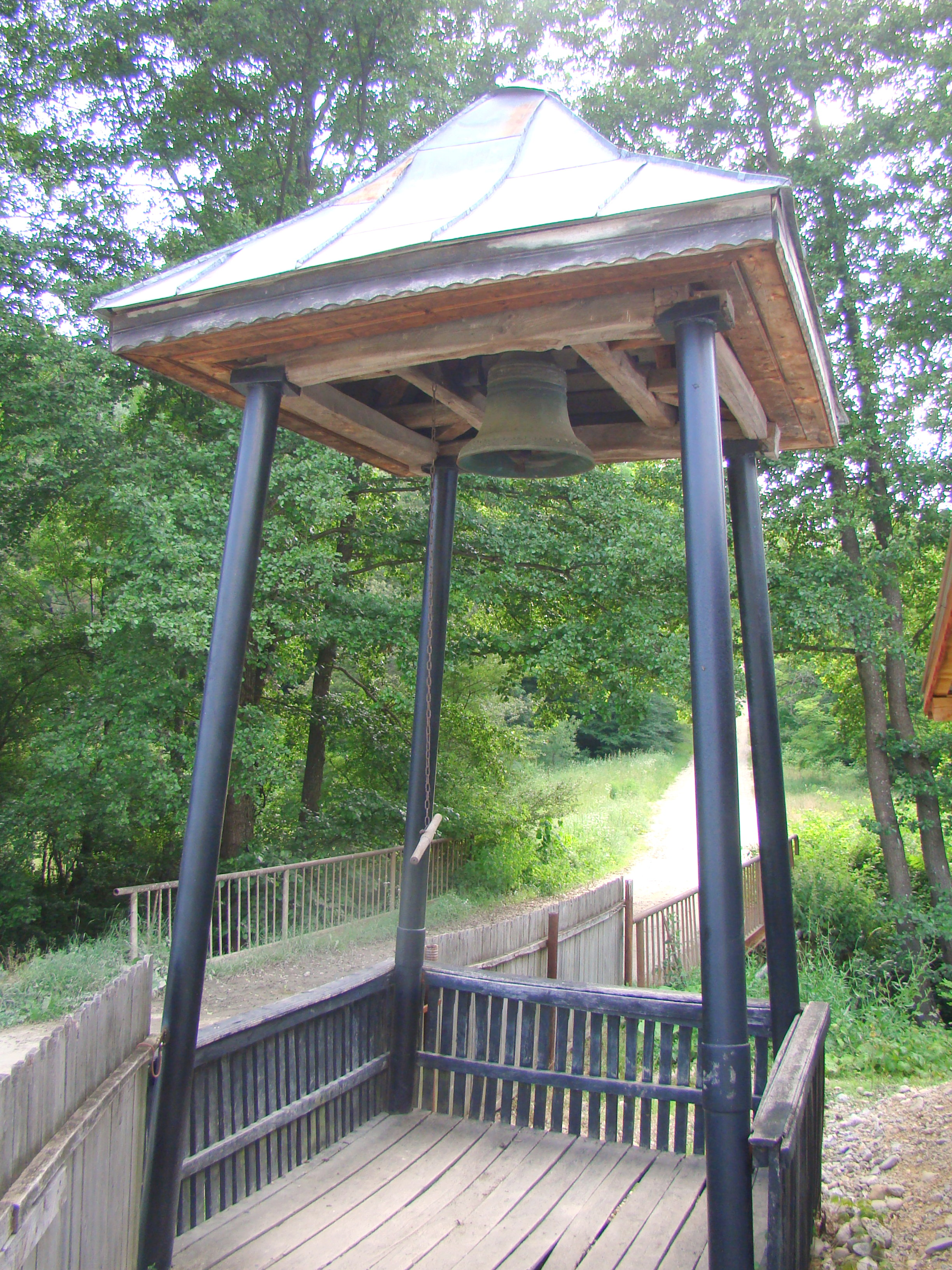 Wooden church in Brătuia, Gorj county, Romania